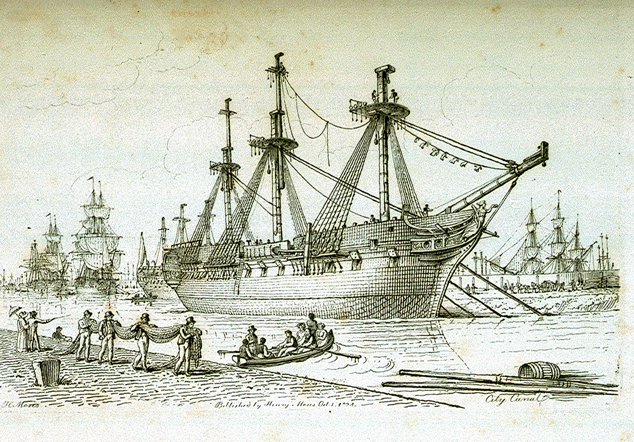 City Canal Print from Moses' 'Sketches of Shipping', entitled 'City Canal'. Signed, dated and inscribed by artist. The view shows the Indiamen in the City Canal which by-passed the Isle of Dogs to the north. There is a related watercolour (PAH9478), possibly by Moses, in the NMM collection. City Canal